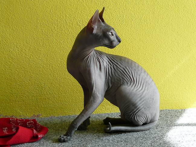 Don Sphynx cat (DSP) cattery Pyrel *Sk